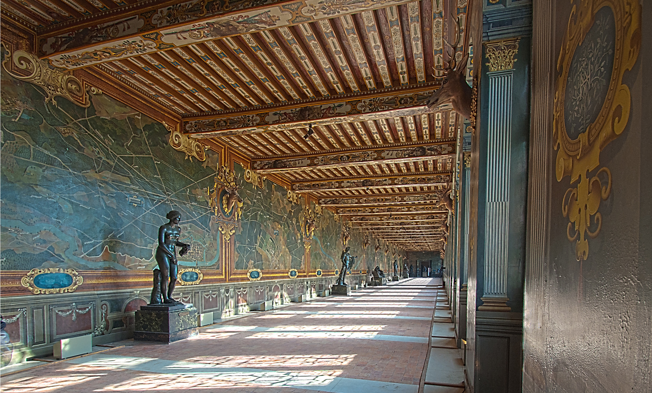 Interior of the Palace of Fontainebleau.